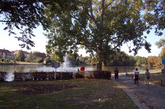 The Lake, Raphael Park, Gidea Park